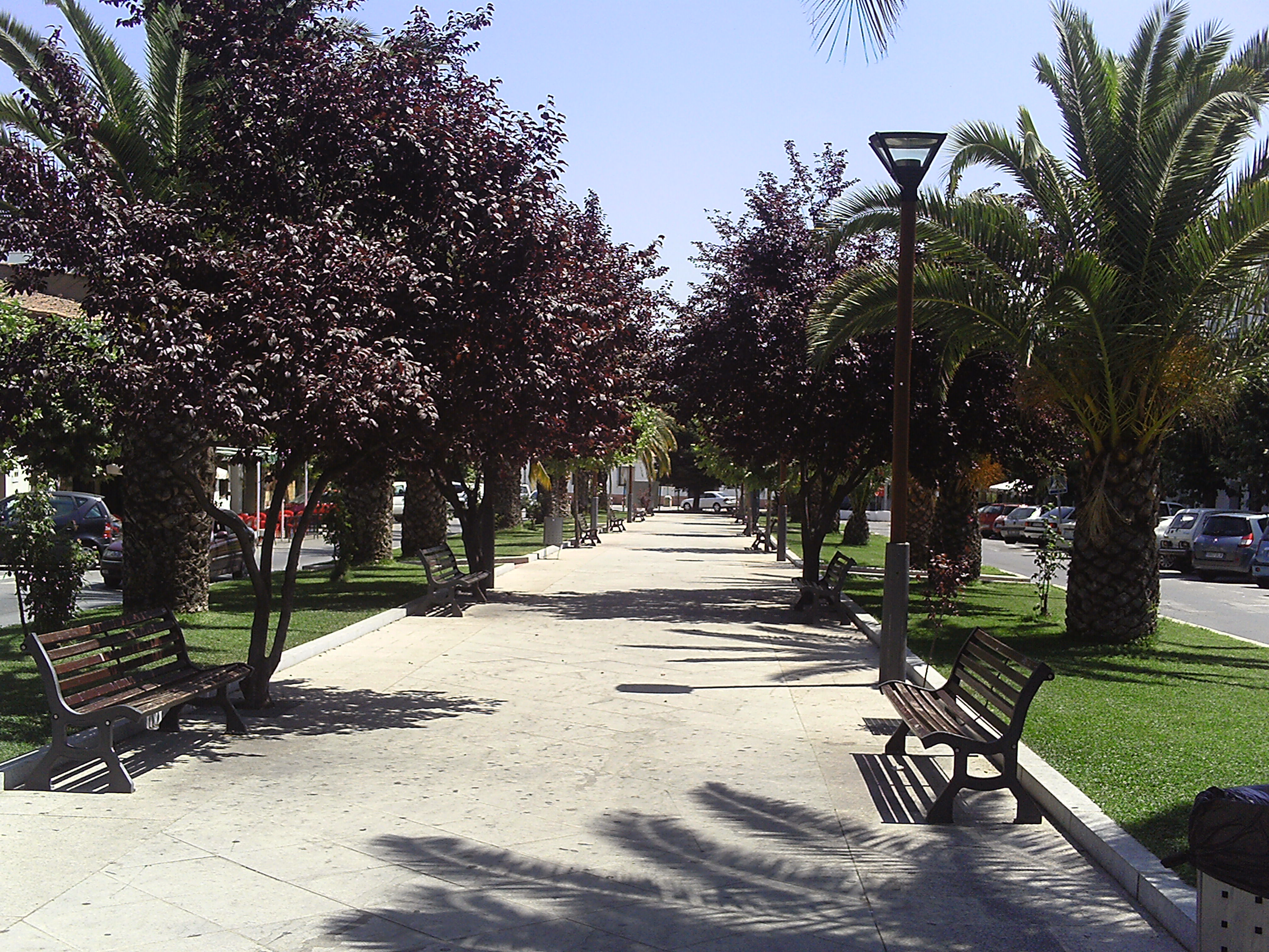 Park of Herrera del Duque